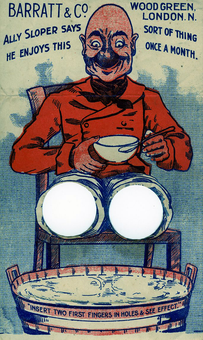 Scanned from a family heirloom, left by Percy Vinicombe, who was employed by Barratt & Co. from 1897